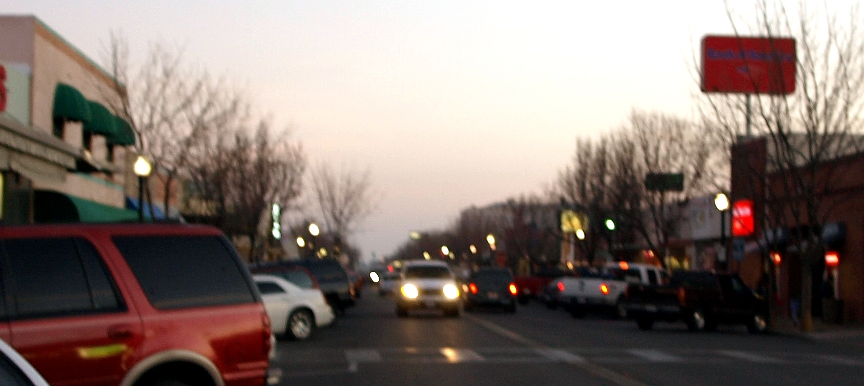 Main Street in downtown Delano, California, between 13th Avenue and 12th Avenue. View from the northbound lane of Main Street, looking southeast. This photograph was taken with an Olympus E-510 DSLR camera and edited (color balance, saturation, brightness and contrast) using ArcSoft Photostudio 5.5